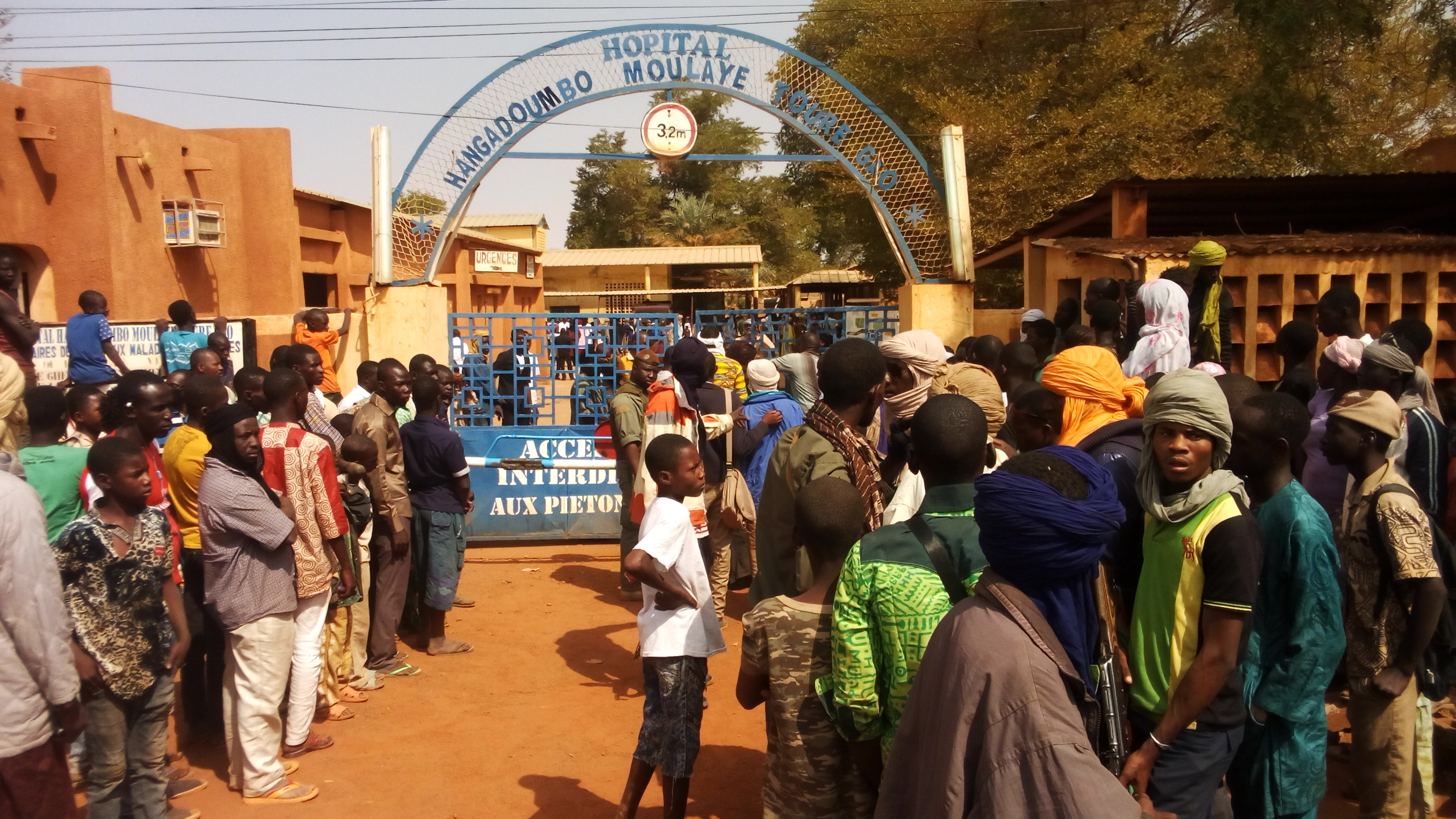 Hospital Hangandoumbou Moulaye Touré, Gao, Mali, after a terrorist attack on 18 January 2017